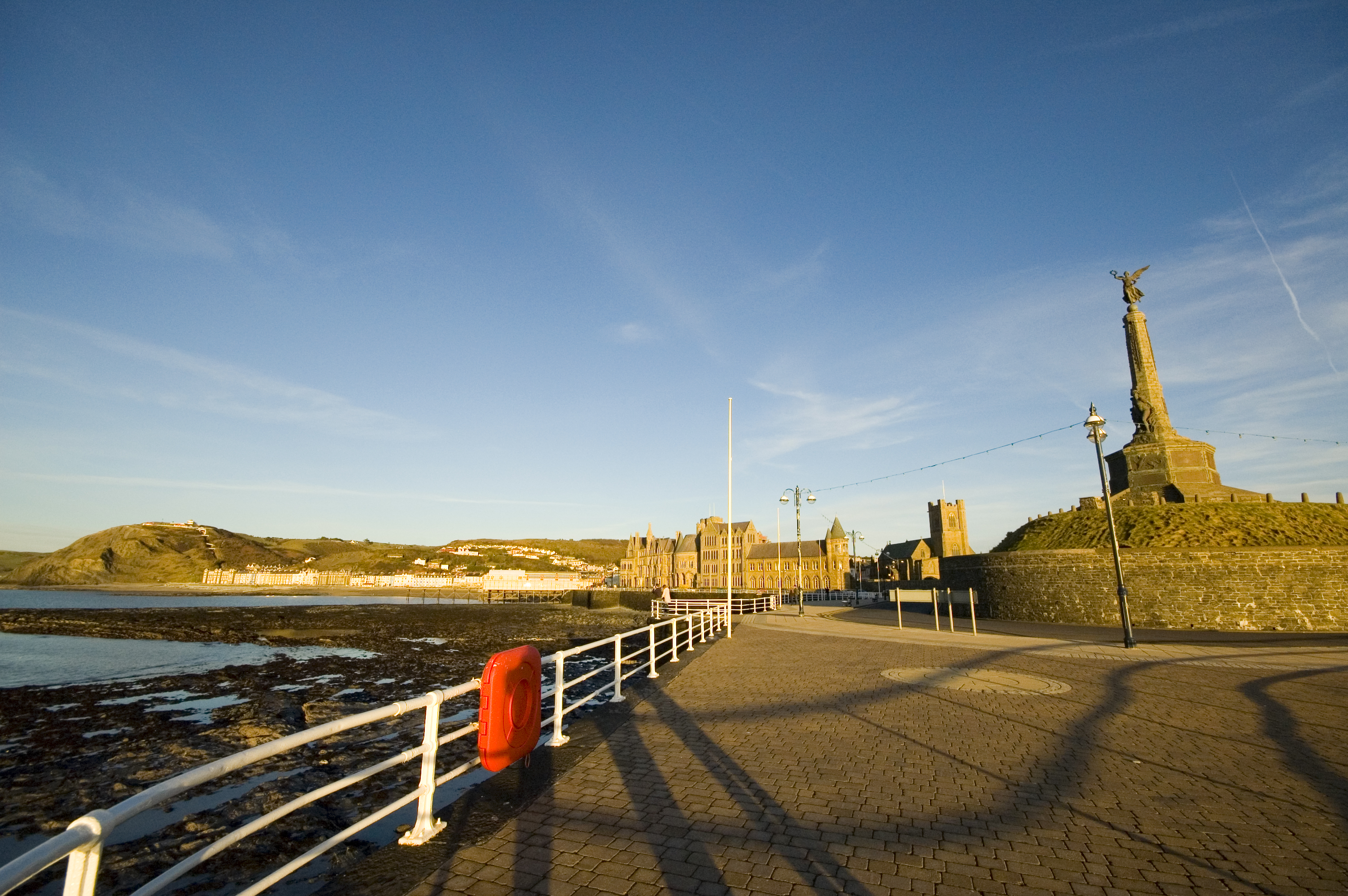 Description=Aberystwyth Castle Point taken late afternoon on a sunny Sunday in early February. The monument to Seamen (at right) was sculpted by Mario Rutelli. Source=Own photograph Date=2007/02/04 Author=Eos12 Not a monument to seamen, it is a war memorial